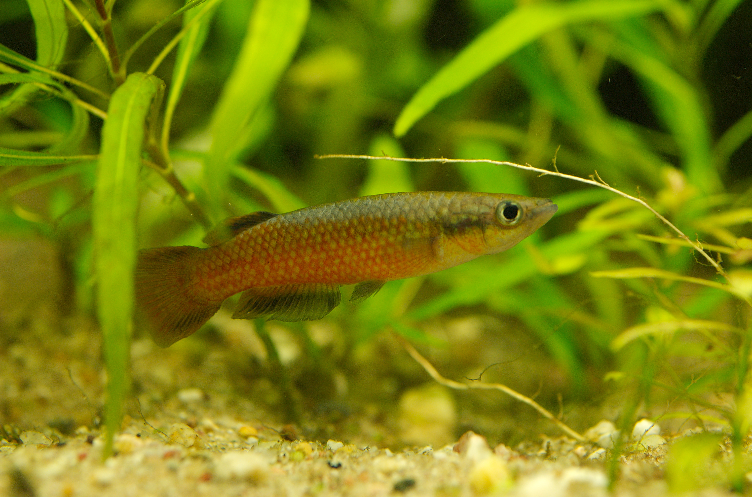 Powder-blue panchax